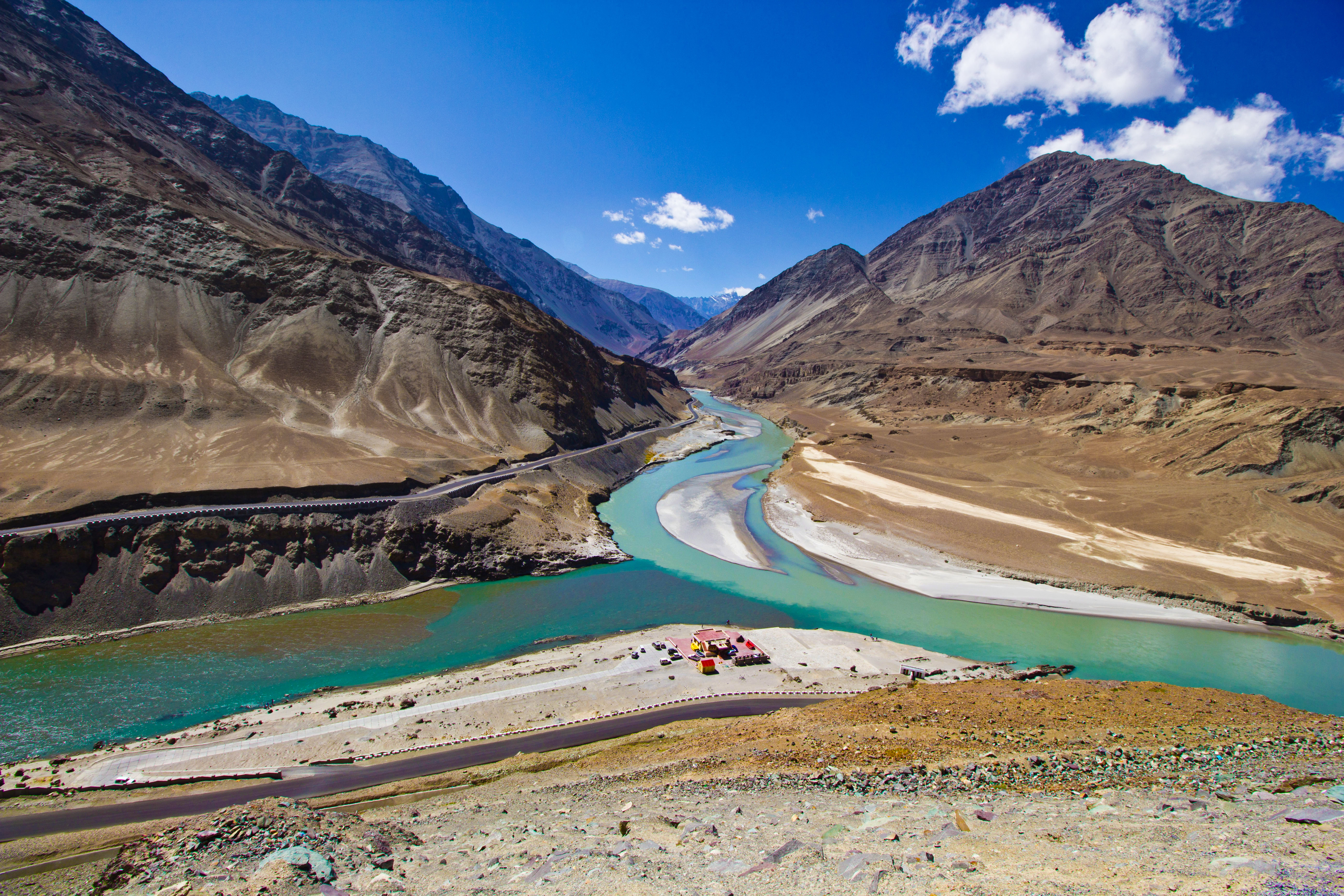 Two great rivers merging at place called Nimmu near LEH in Ladakh,India.